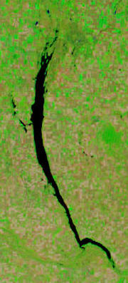 Portion of Nasa satellite image showing Last Mountain Lake in Saskatchewan Canada (Captions have been added by Kayoty)